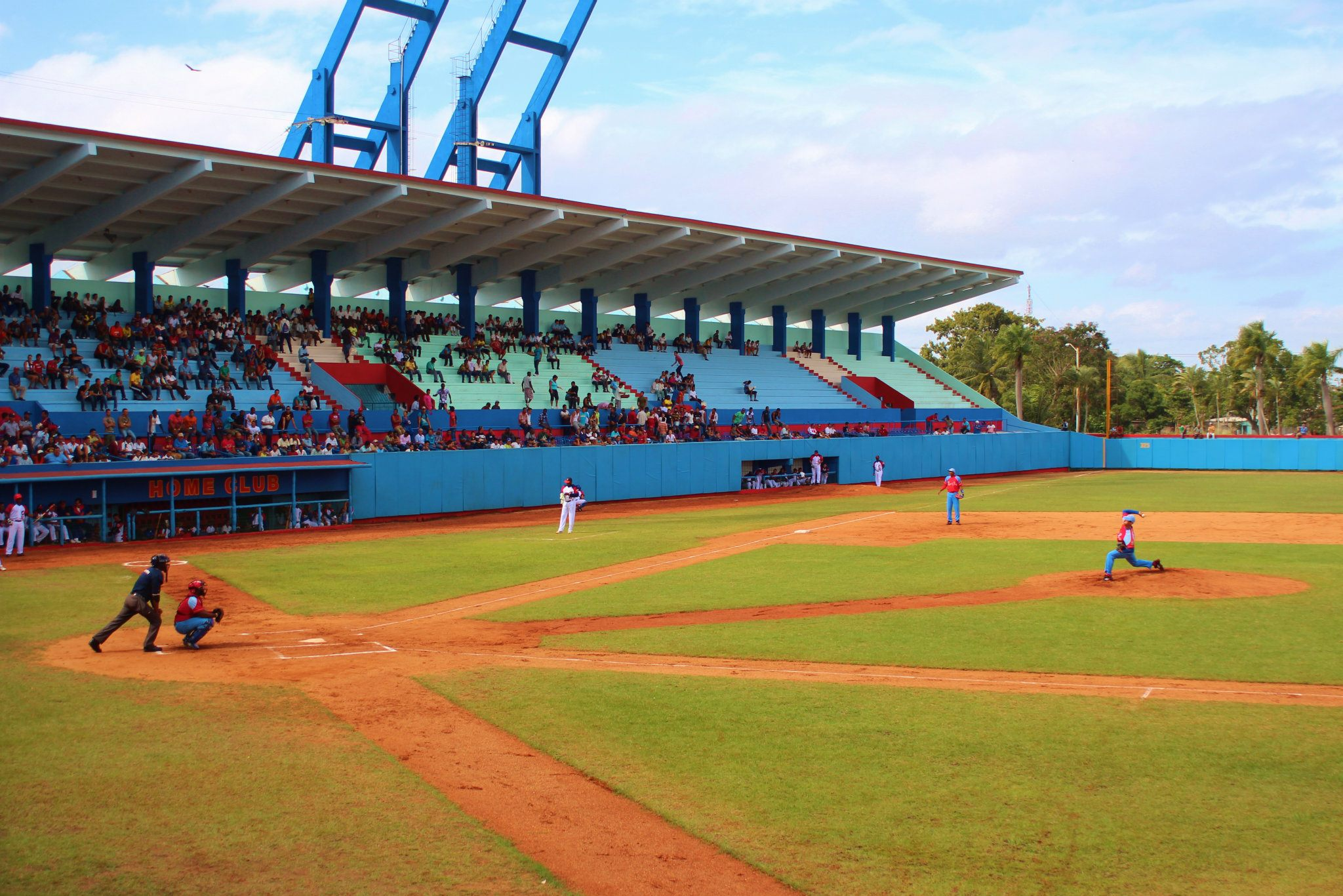 Camaguey's Baseball Stadium